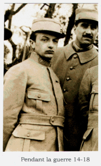 Henry Lentulo, oral surgeon